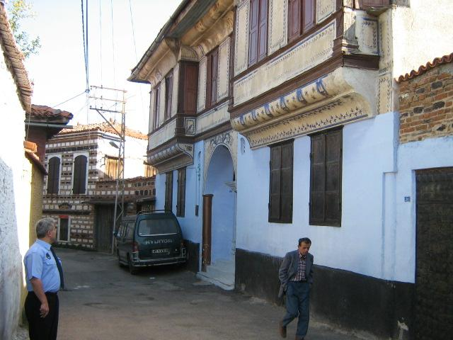 Kula, Manisa, Turkey